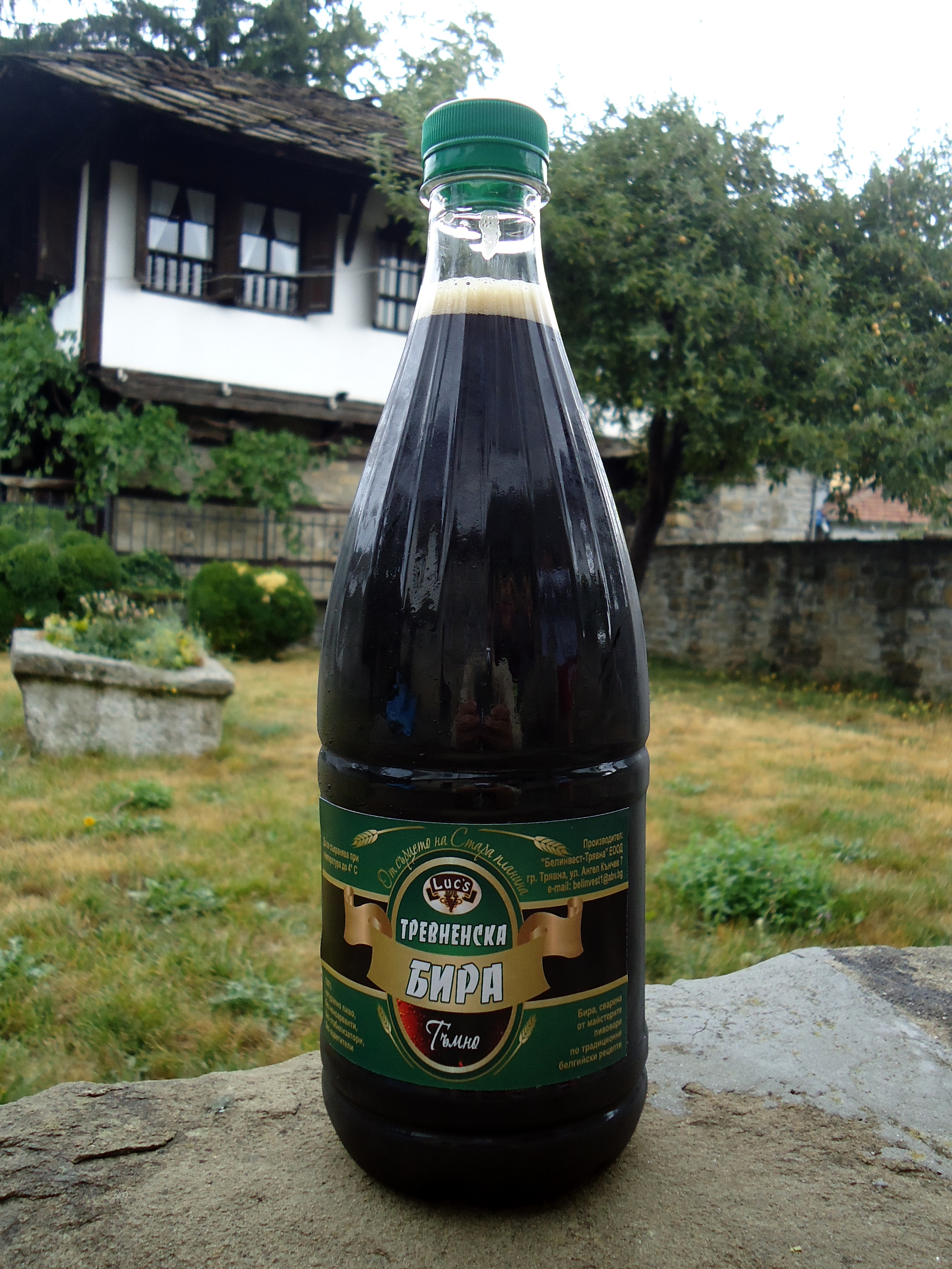 Luc's beer